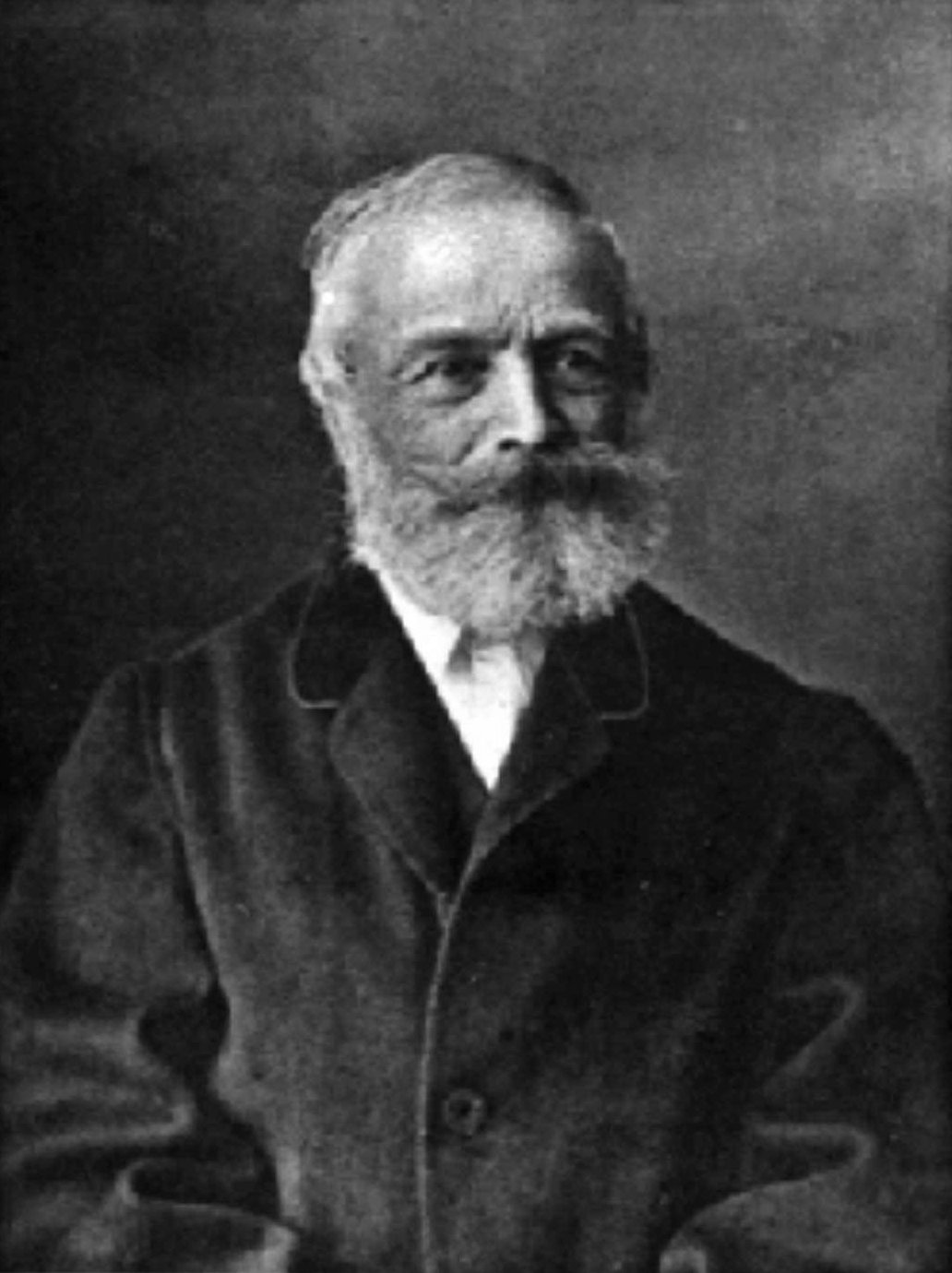 Photograph of Schulzer v. Müggenburg